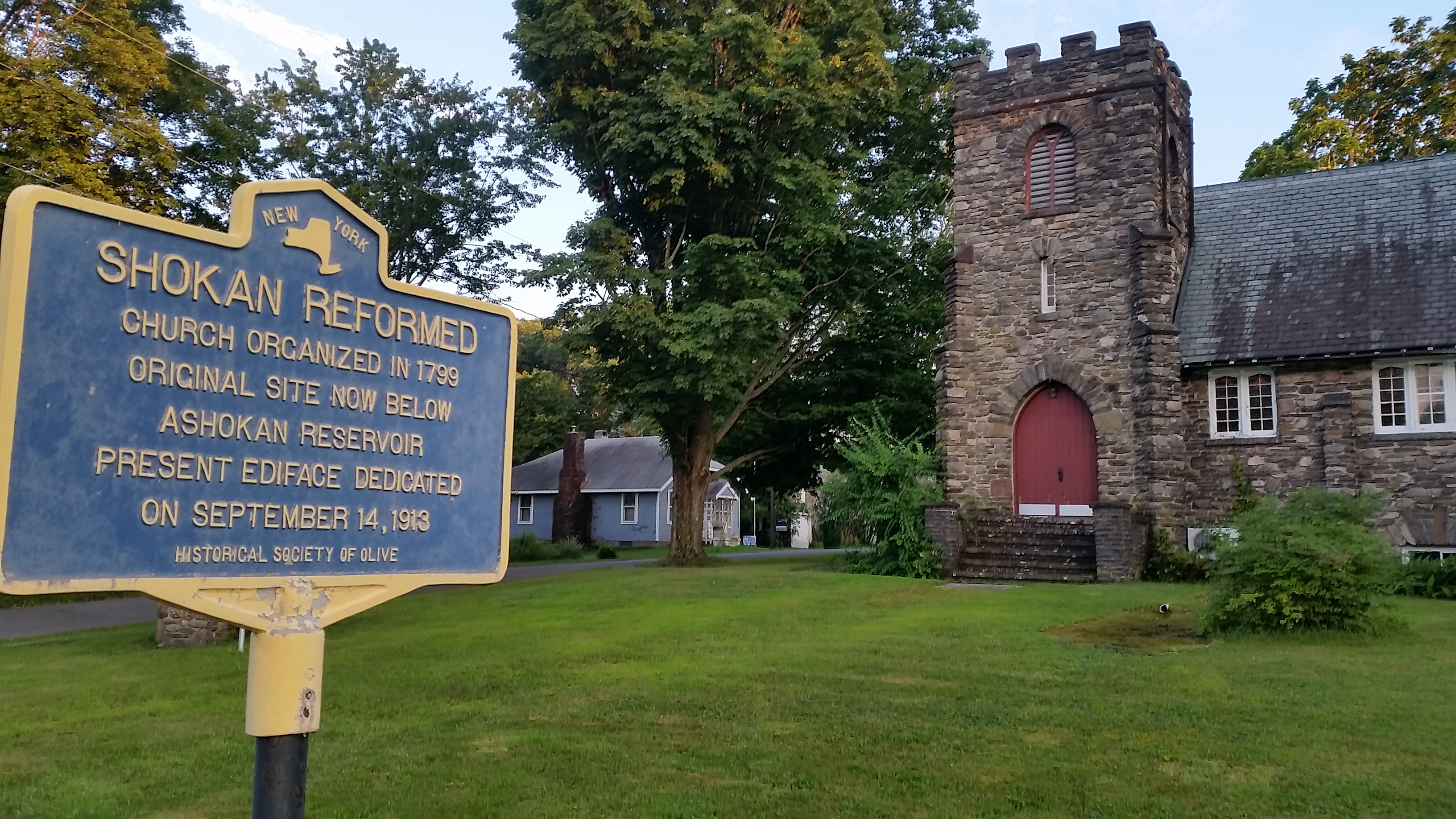 New York State historic marker for the Shokan Reformed Church